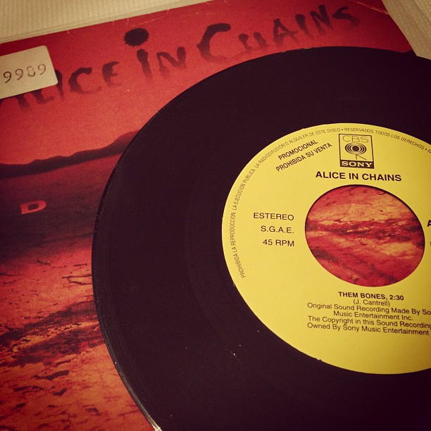 Alice in Chains Them Bones single